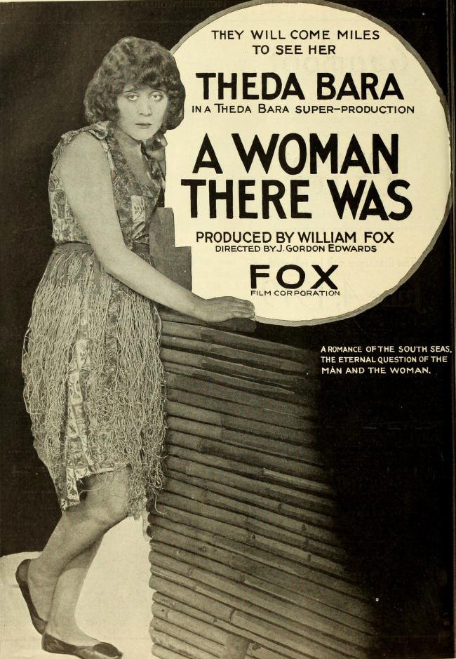 Advertisement in Moving Picture World, May 1919 for the film A Woman there Was (1919).